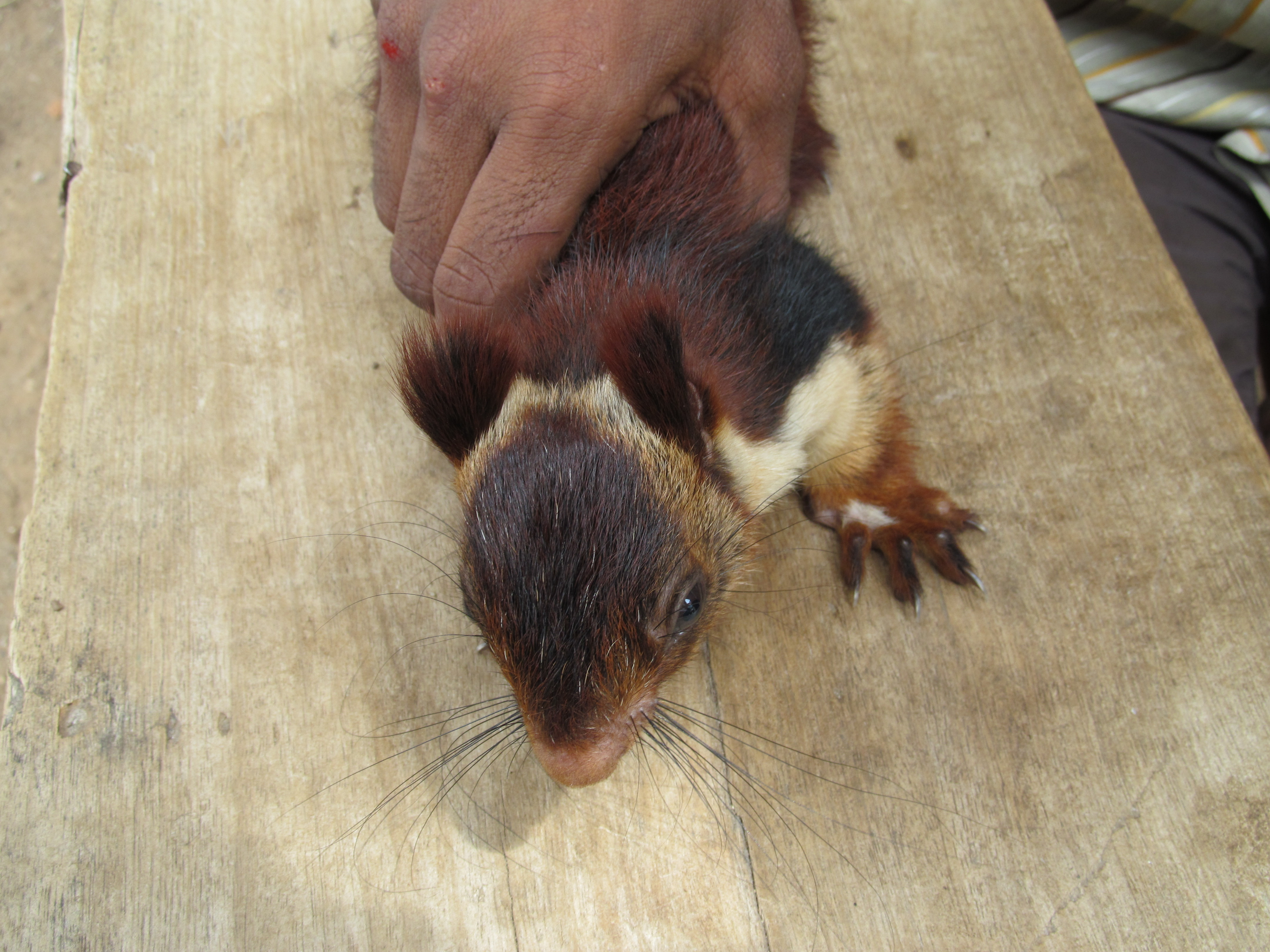 forest cat